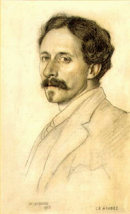 charcoal and coloured chalk on paper